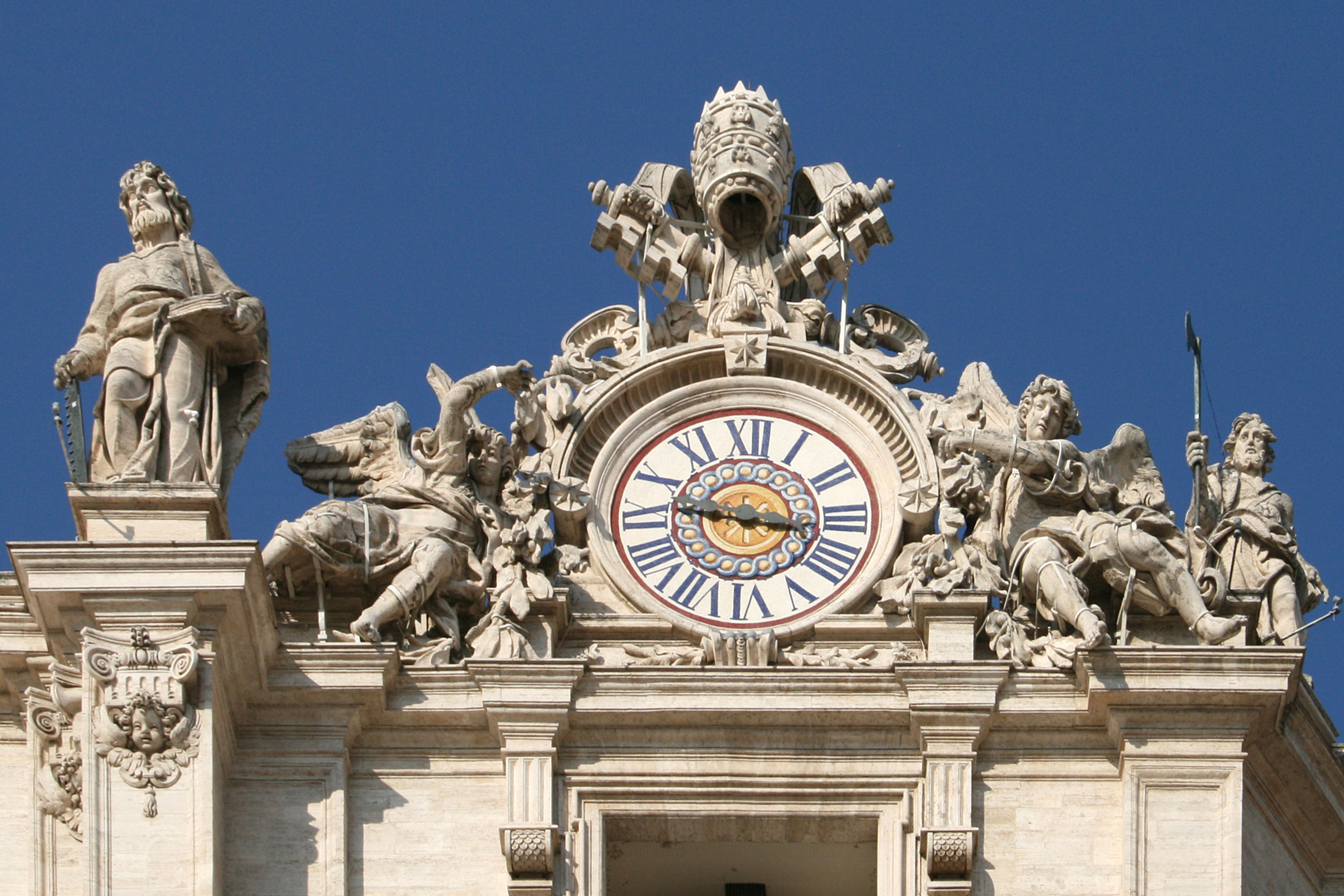 Clock and statue of St.Simon the Zealot (with a saw) adorning the right side of the front of the St. Peter's Basilica in the Vatican. Back-right: St. Matthias the Apostle holding an upright halberd (battleaxe).